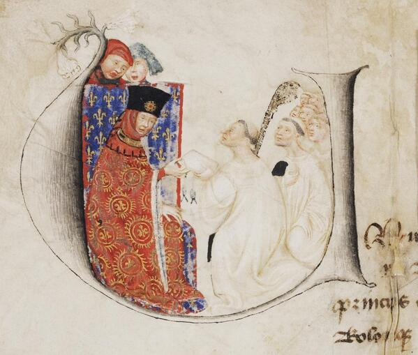 Miniature of abbot Lubert Hautscilt handing duke Jean de Berry a document (illuminated initial on the Charter making the duke a member of the Fratres ad Succurendum, a confraternity in Bruges). In December 1402, the abbott had handed the duke a copy of the Liber Astrologiae. The charter, given during a meeting in June 1403, is kept in the Archives nationales, Paris.